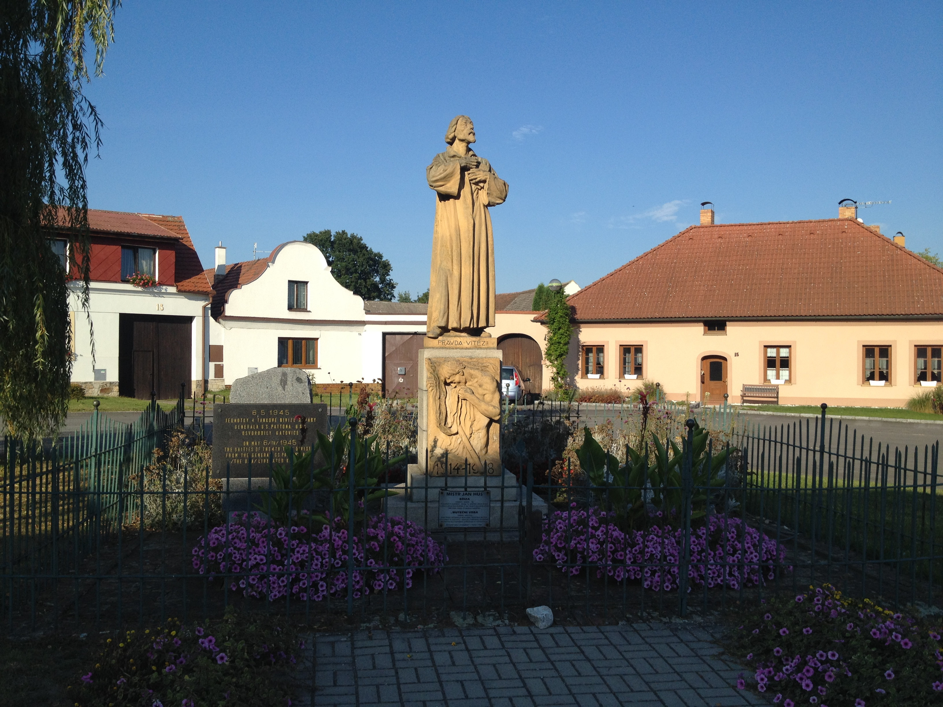 Statue of Mistr Jan Hus in Katovice square